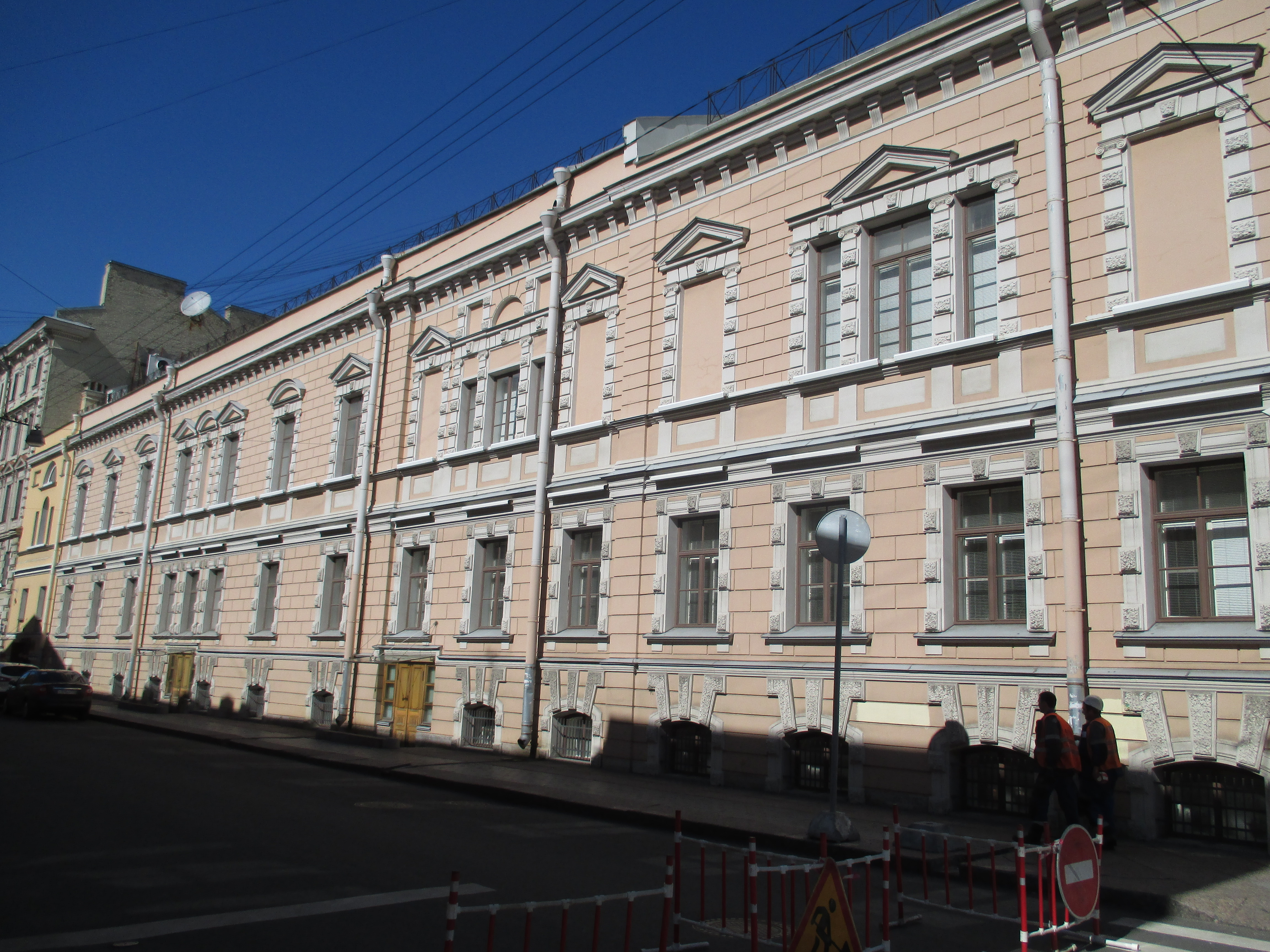 Bezborodko Palace in Saint Petersburg - western facade